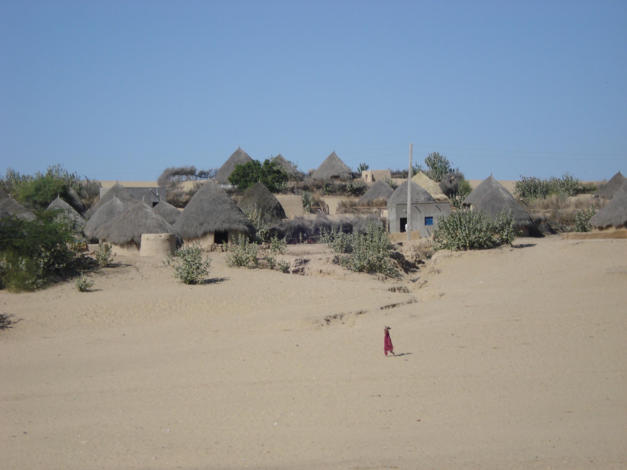 Village by the desert in Tharparkar District, Sindh, Pakistan